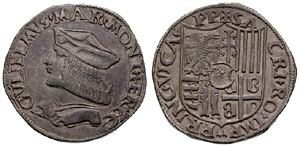 Italy, Casale. Guglielmo II Paleologo. 1494-1518. AR Testone (9.21 g). GVLIELMVS•MAR•MONT•FE•ZC', capped bust left +CRI•RO• IMP•• PRINC• VICA•PP, arms.